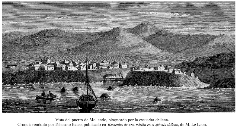 M.Le.Leon Recuerdos de una mision en el ejécito de chile